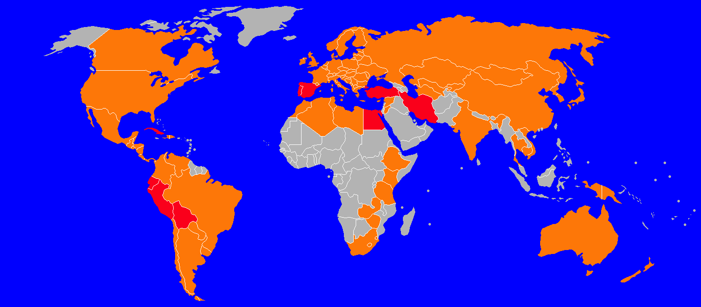 A map to show the global prevalence of Fasciola hepatica. The red countries are those with a high prevalence of the parasite, the orange are those with a low-medium prevalence. (Map created based on data from[1][2][3][4])